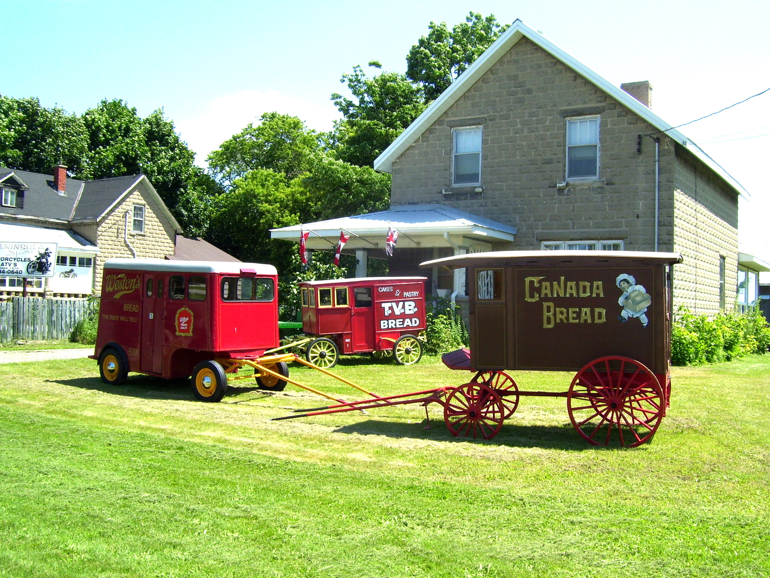 Old bread wagons